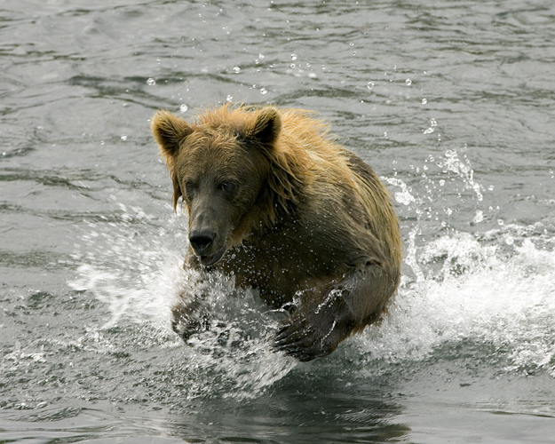 Brown bear in stream. Kodiak National Wildlife Refuge, Alaska.